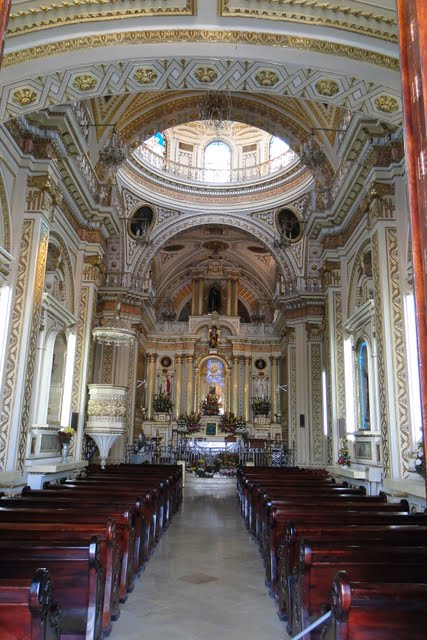 Nuestra Señora de los Remedios church